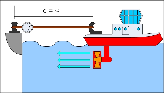 idealized illustration of a bollard pull trial